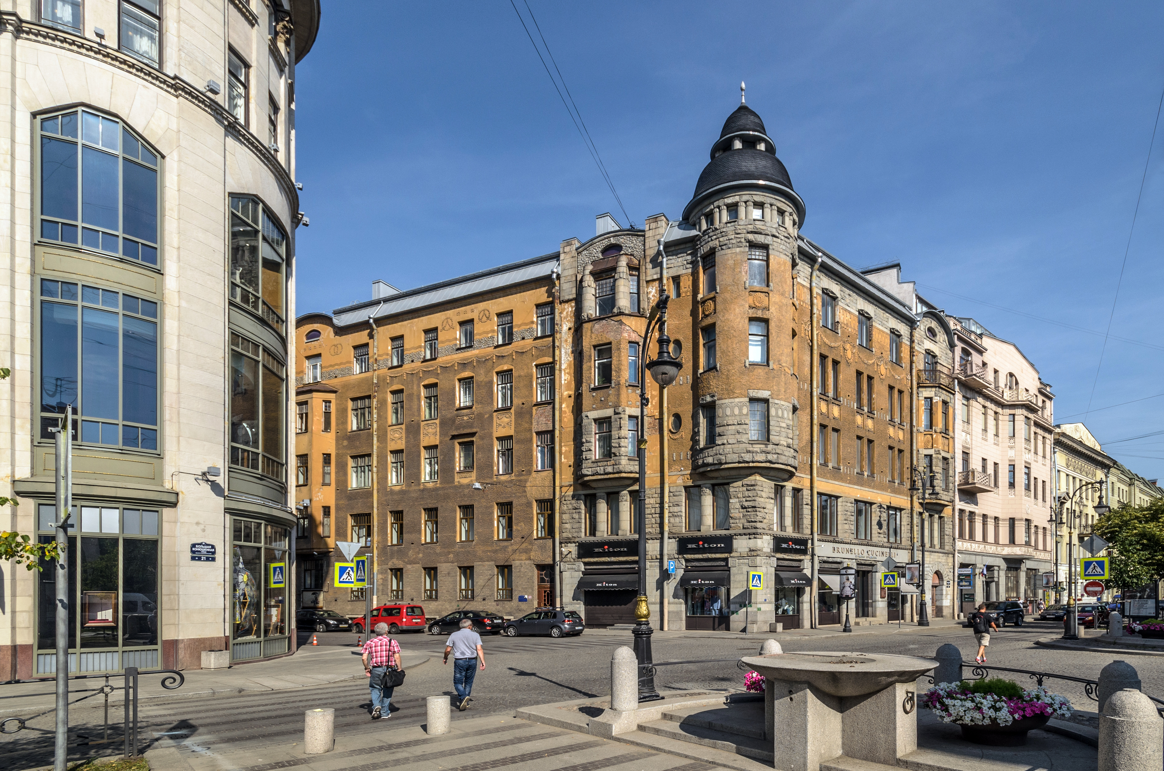 Meltzer's Apartment House at Bolshaya Konushennaya Street in Saint Petersburg